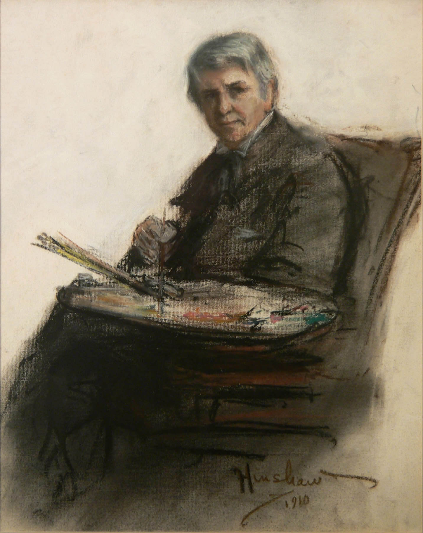 Glenn Cooper Henshaw - Portrait of Richard B. Gruelle, 1910. pastel on paper on cardboard, 20″ x 15″, Art Museum of Greater Lafayette